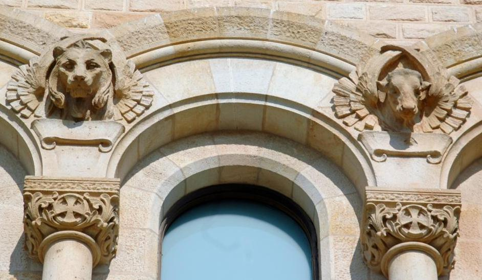 Saint Mary Church, Castelldefels, Barcelona, Catalonia, Spain